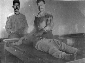 Greek killed by IMARO